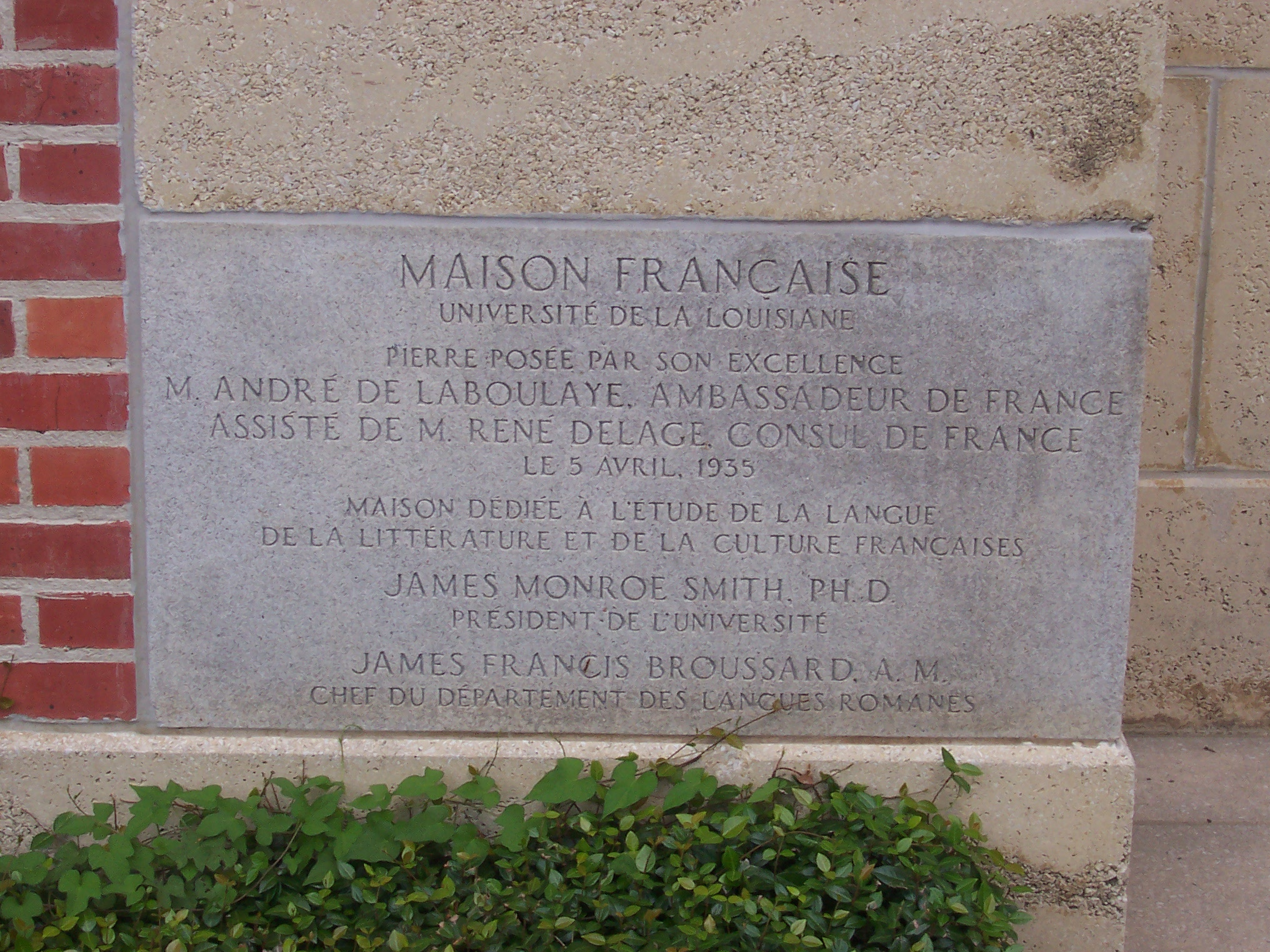 Cornerstone of the French House on the campus of Louisiana State University